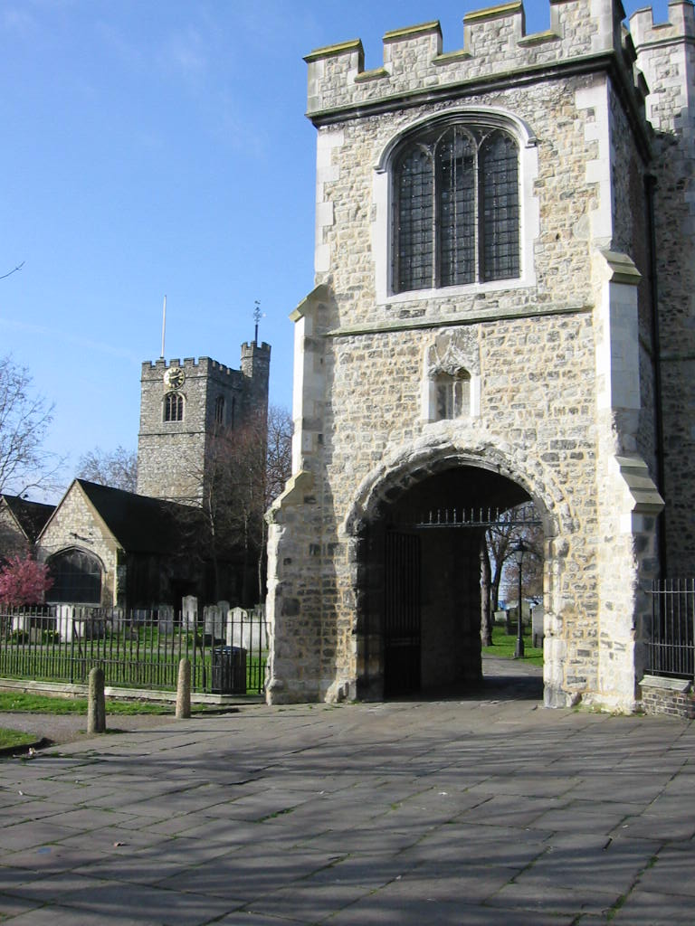 Curfew Tower of Barking Abbey, London. I took the picture myself. Category:Images of Barking & Dagenham